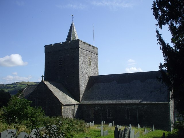 St Padarn's church, Llanbadarn Fawr